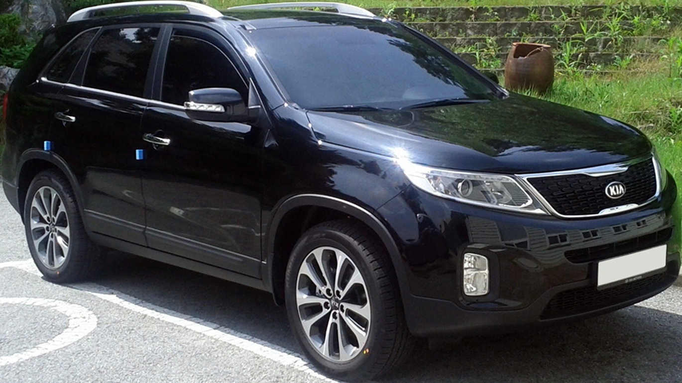 Kia New Sorento R